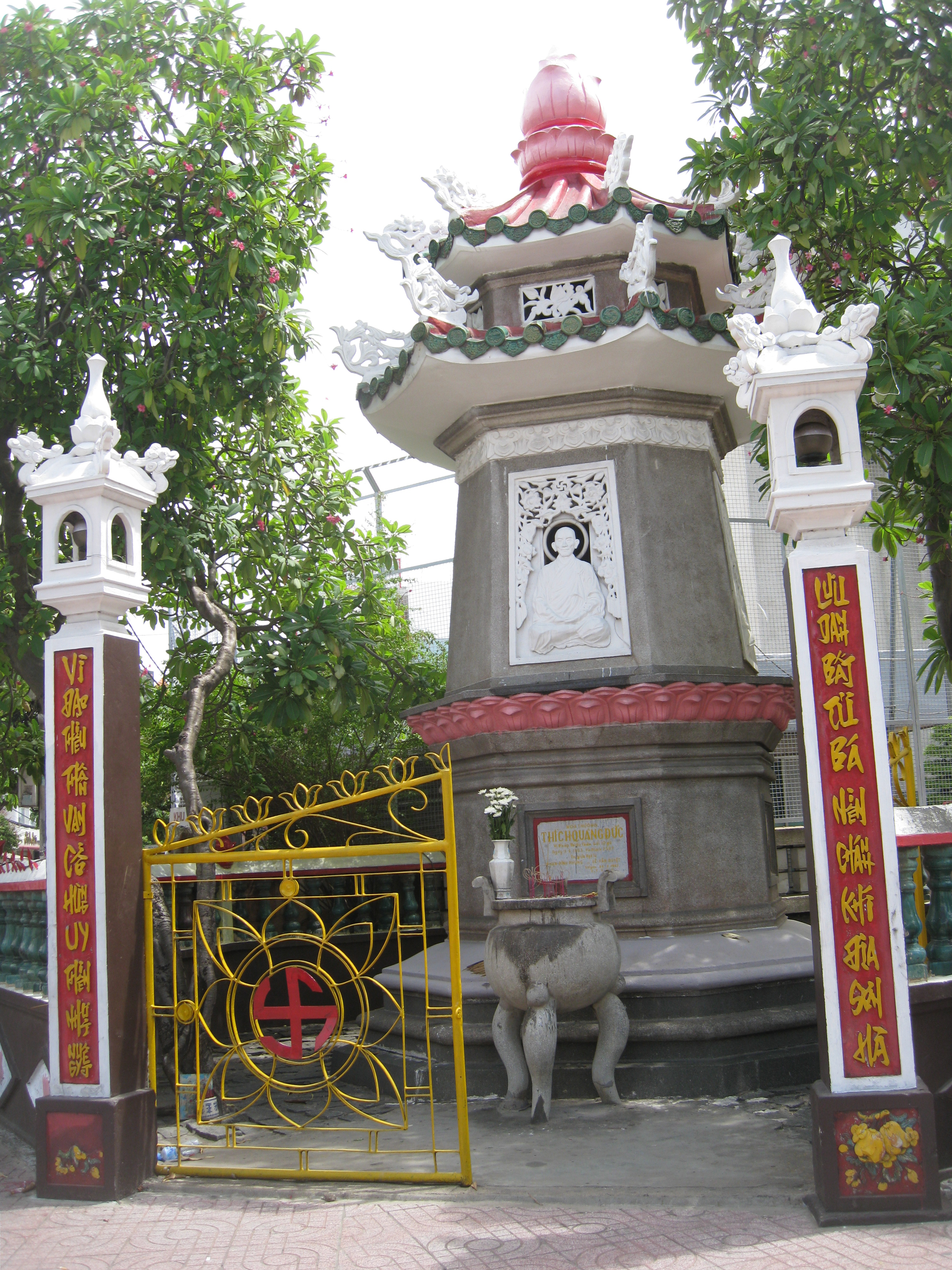 A memorial to Thích Quảng Đức in HCMC.